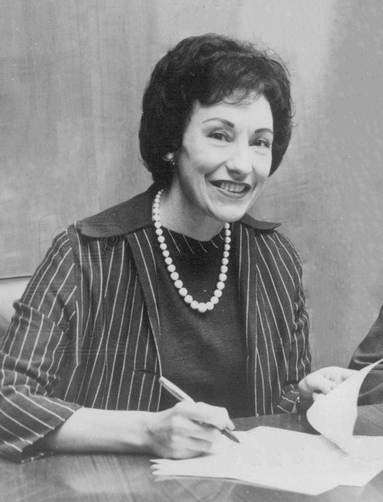 1963 Press Photo English Channel Swimmer Florence Chadwick, Alan Tishman